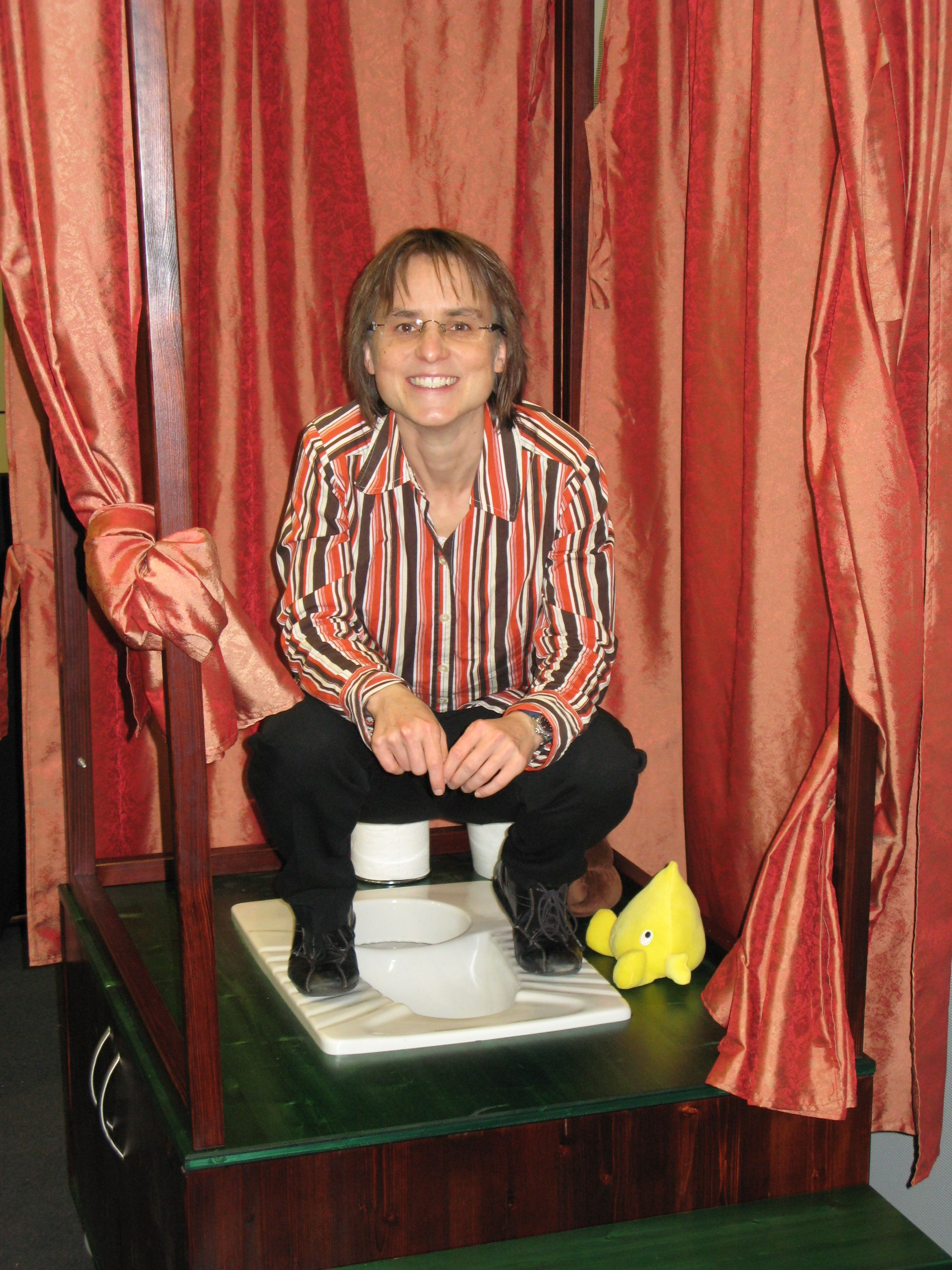 Germany - fancy-looking mobile UDDT for display purposes